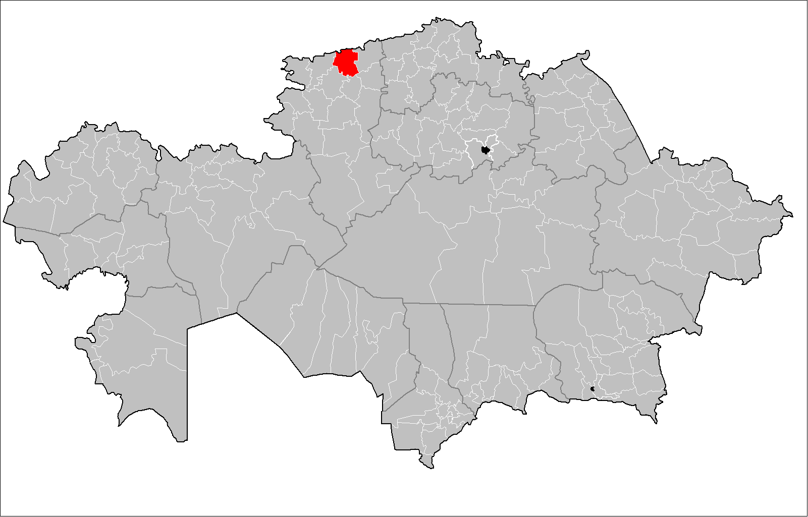 Map of the rayons of Kazakhstan. Created by Rarelibra 16:49, 3 August 2007 (UTC) for public domain use, using MapInfo Professional v8.5 and various mapping resources.